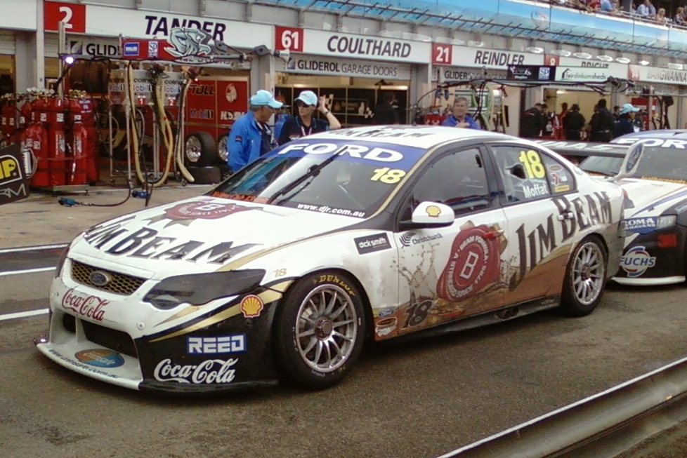 The Dick Johnson Racing Ford FG Falcon of James Moffat at the 2011 Clipsal 500 Adelaide